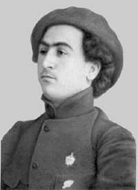 Bahruz Kengerli (1892-1922) - famous Azerbaijani painter